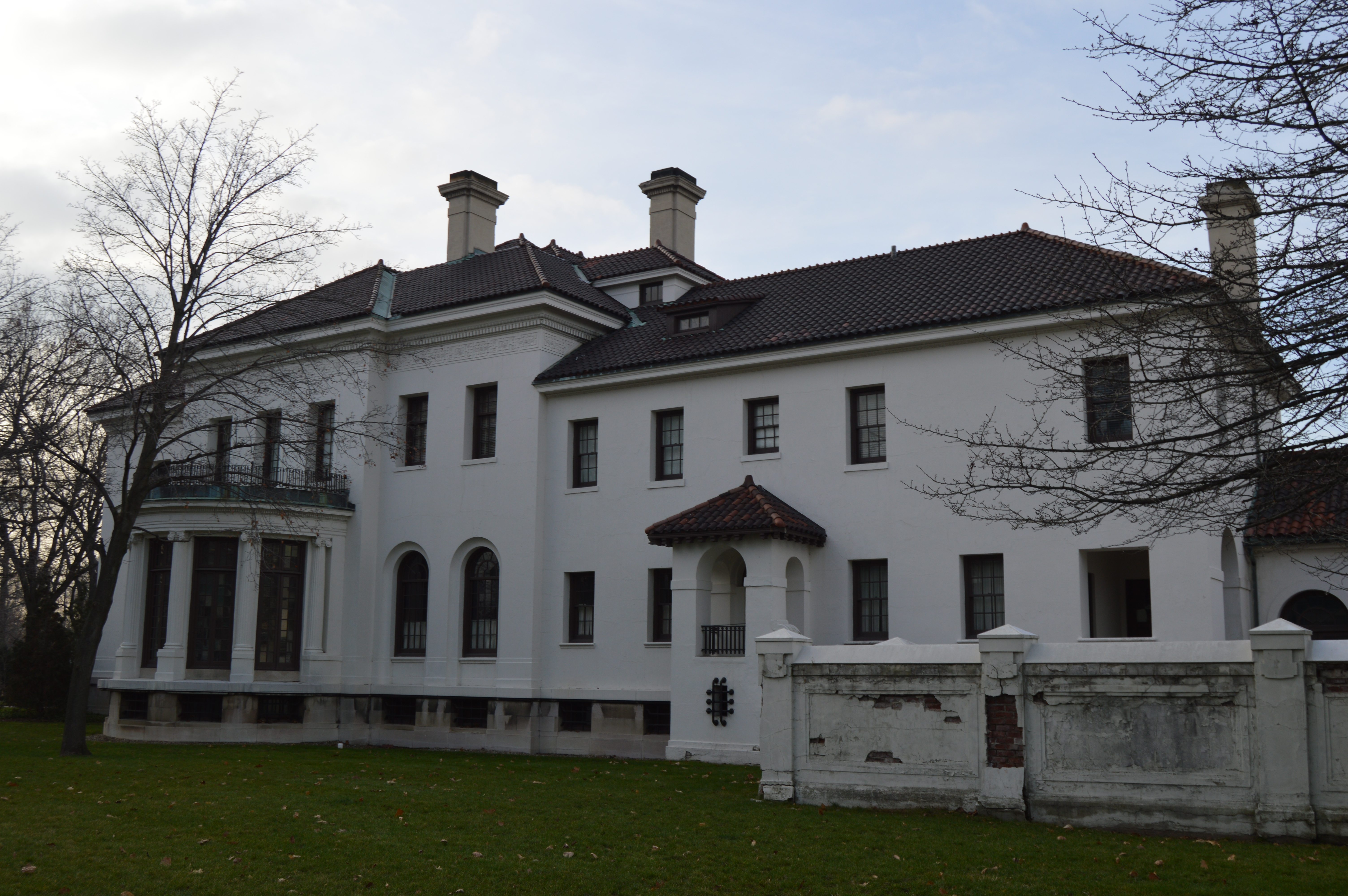 Front of the Hay-McKinney House, located at 10825 East Boulevard in Cleveland, Ohio, United States. Built in 1908-1911, it is the home of the Western Reserve Historical Society, and it listed on the National Register of Historic Places.